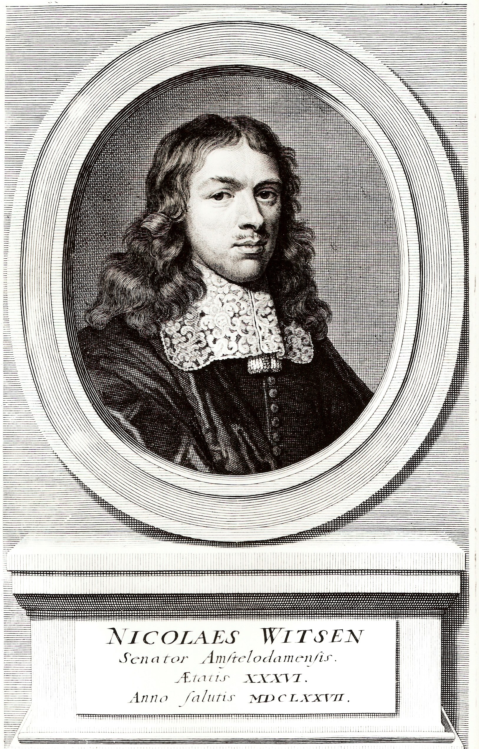 Nicolaes Witsen